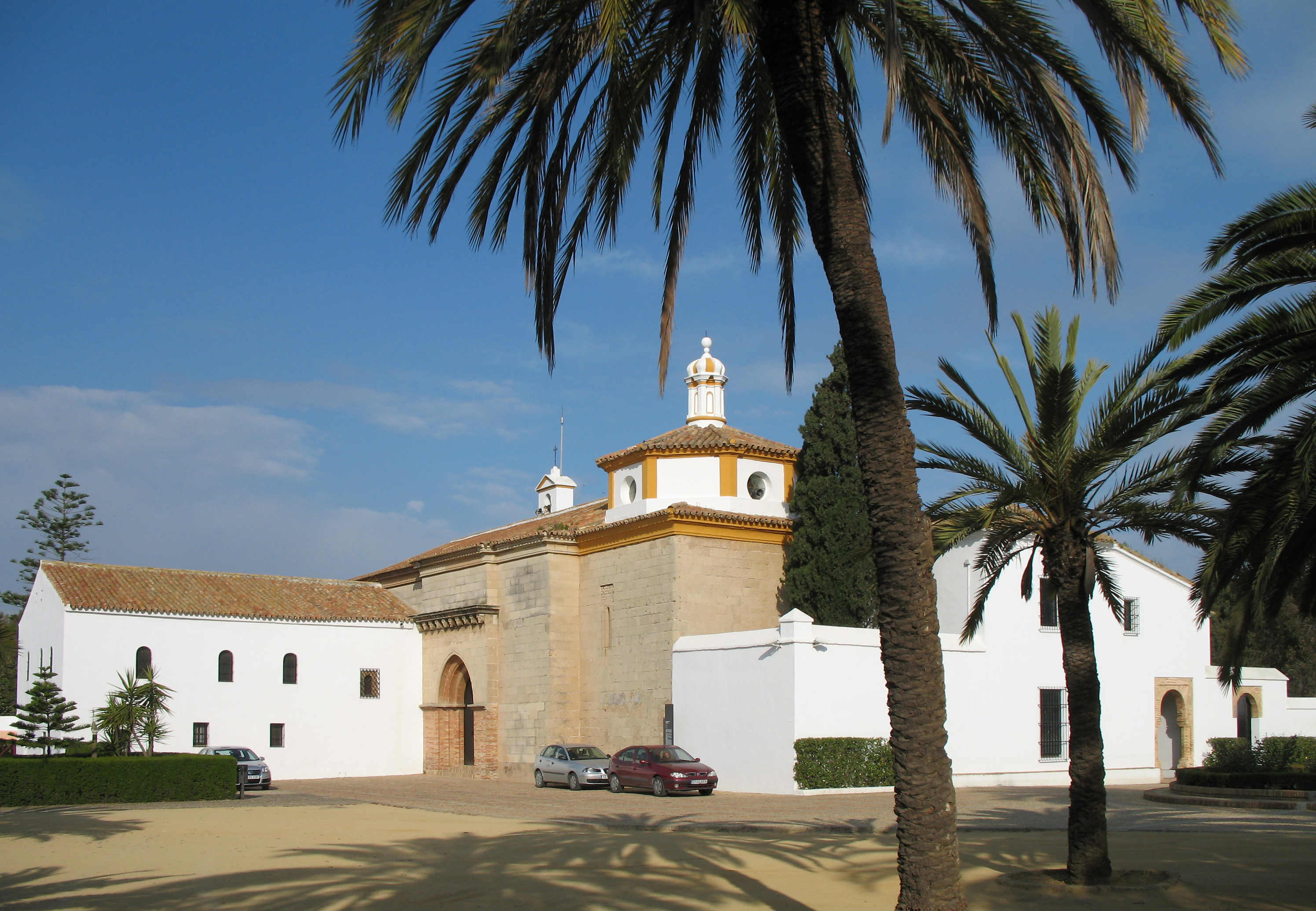 Palos de la Frontera (Huelva, Spain): monastery of Santa María de la Rábida